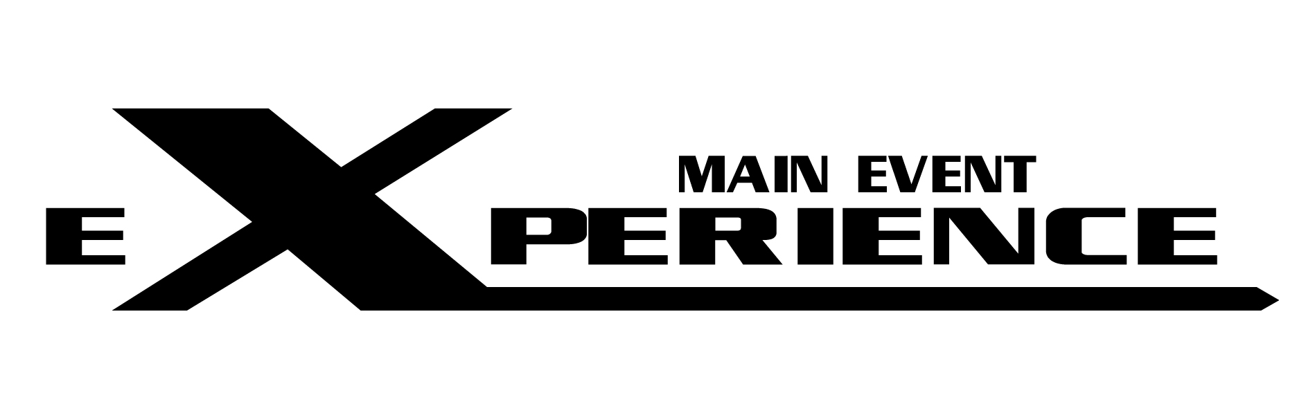 Main Event Experience Logo